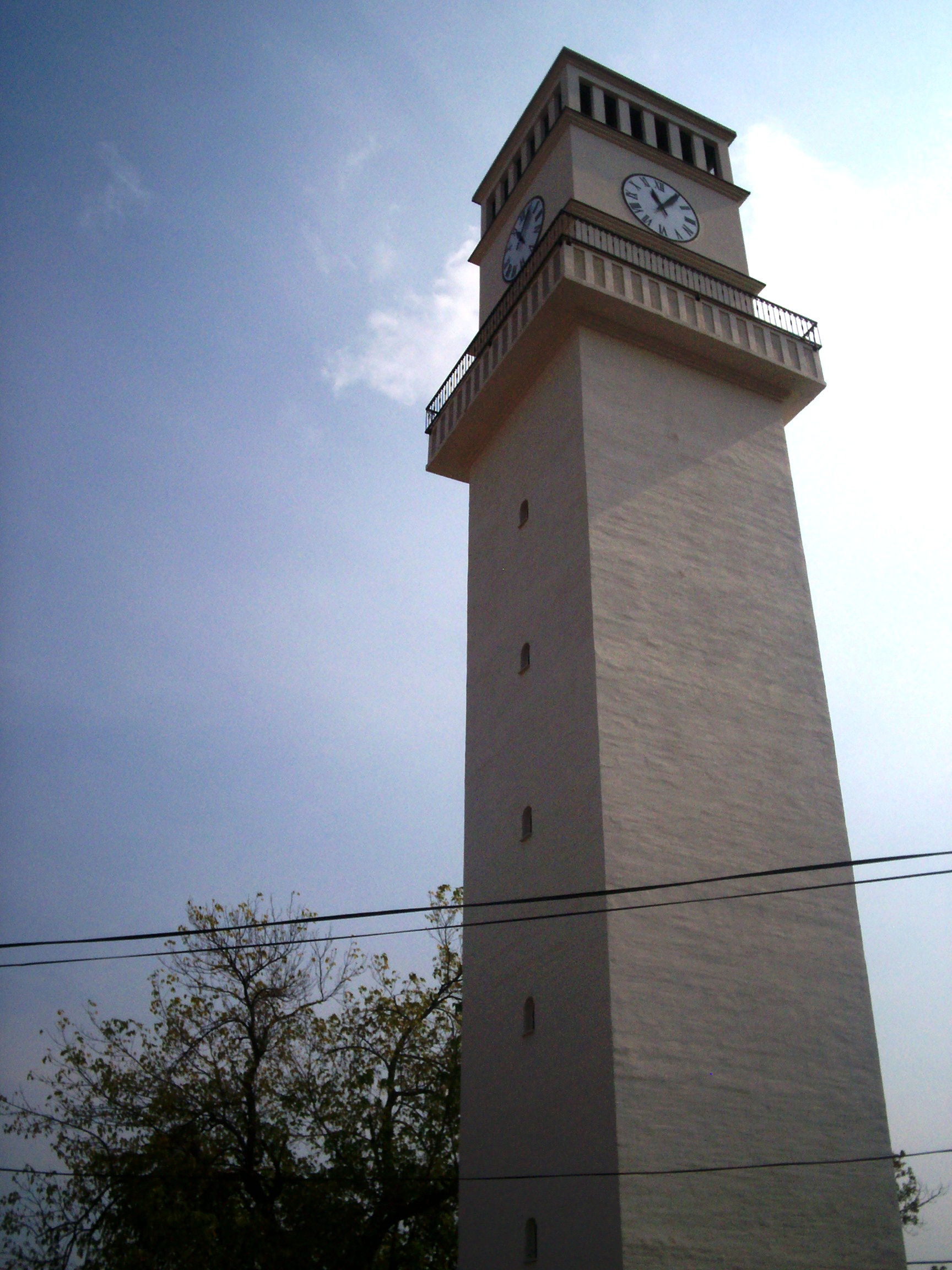 Clock Tower of GjakovaShqip: Kulla e Orës së Gjakovës